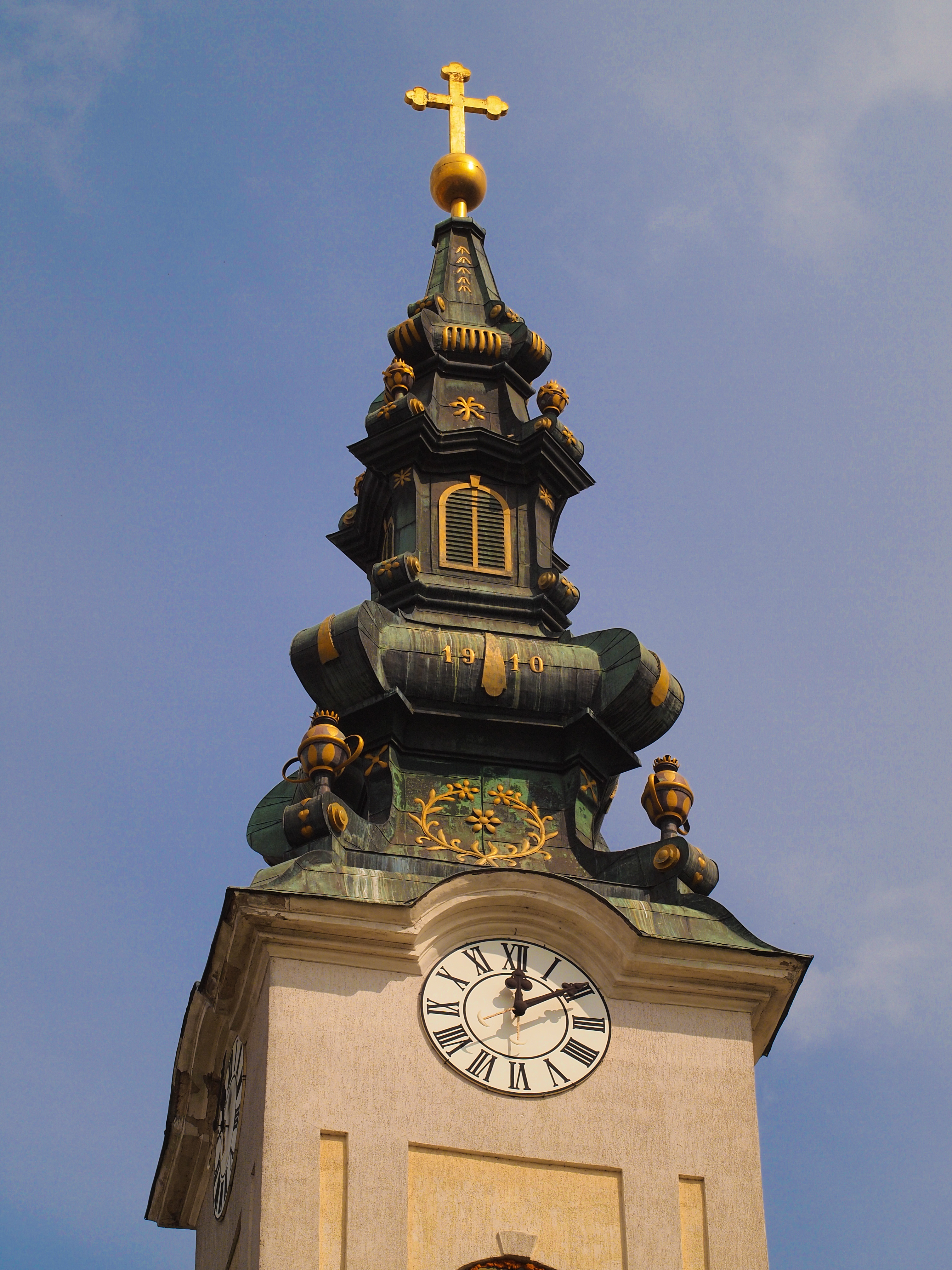 Cathedral of St. Nicholas, Ruski Krstur, Vojvodina, Serbia.